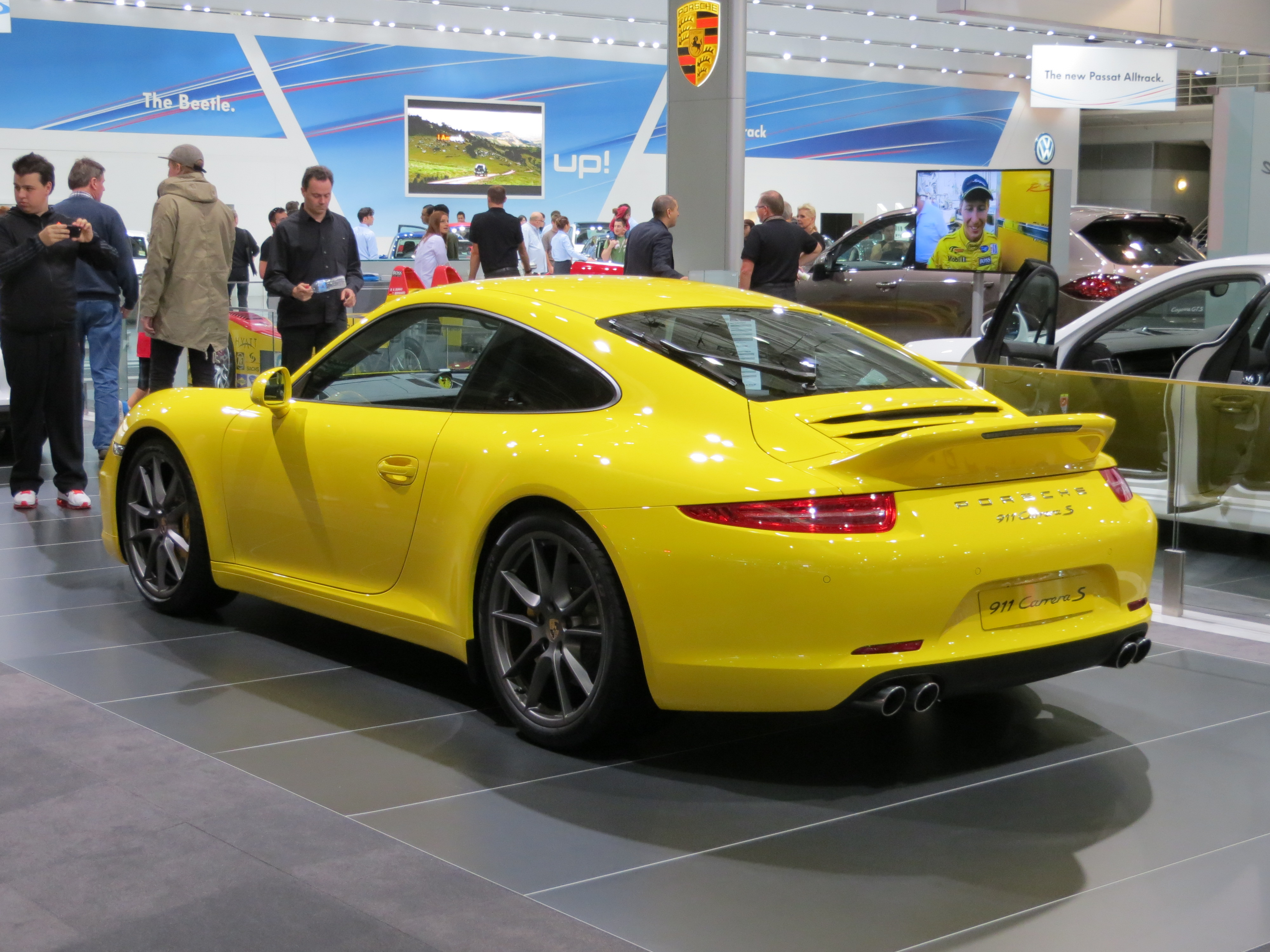 2012 Porsche 911 Carrera (991) S coupe. Photographed at the 2012 Australian International Motor Show, Sydney, New South Wales, Australia.